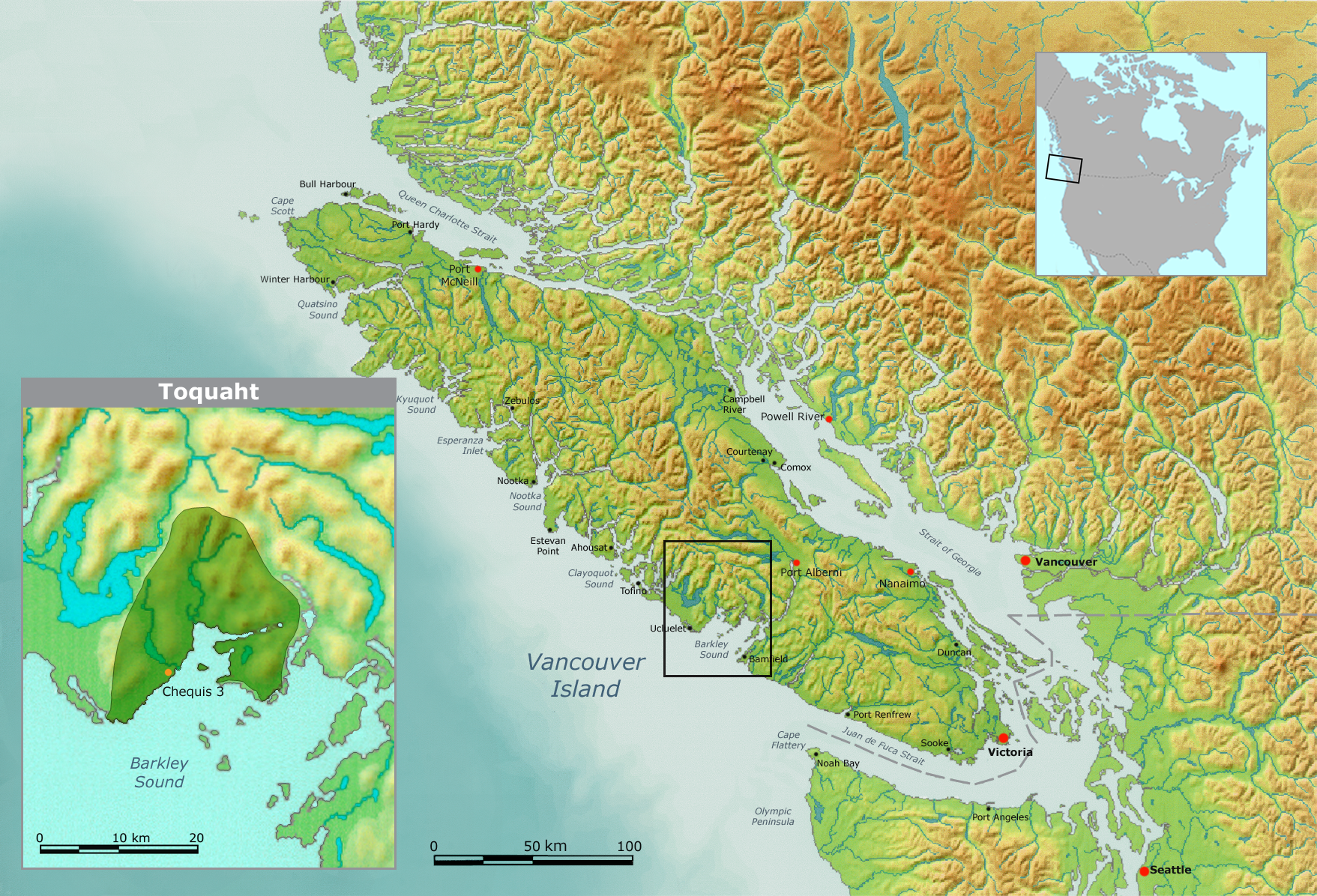 Map of Toquaht tribal territory.